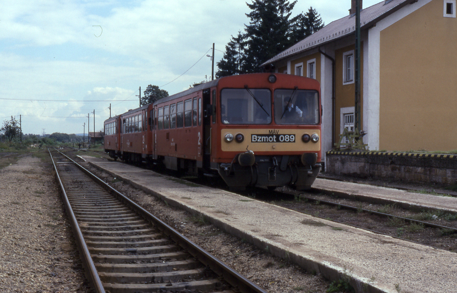 Prior to reversing, train 32214, 11:21 Vác to Balassagyarmat is seen at Drégelypalánk on 14 September 1996. Power car Bzmot 089 would need to run round its two trailers to permit this. This day was spent covering branches north of Budapest close to the Slovakian border. All lines were Bzmot worked and there were several border crossings into Slovakia. However over the years these have all been closed off presumably due to a decline in traffic.